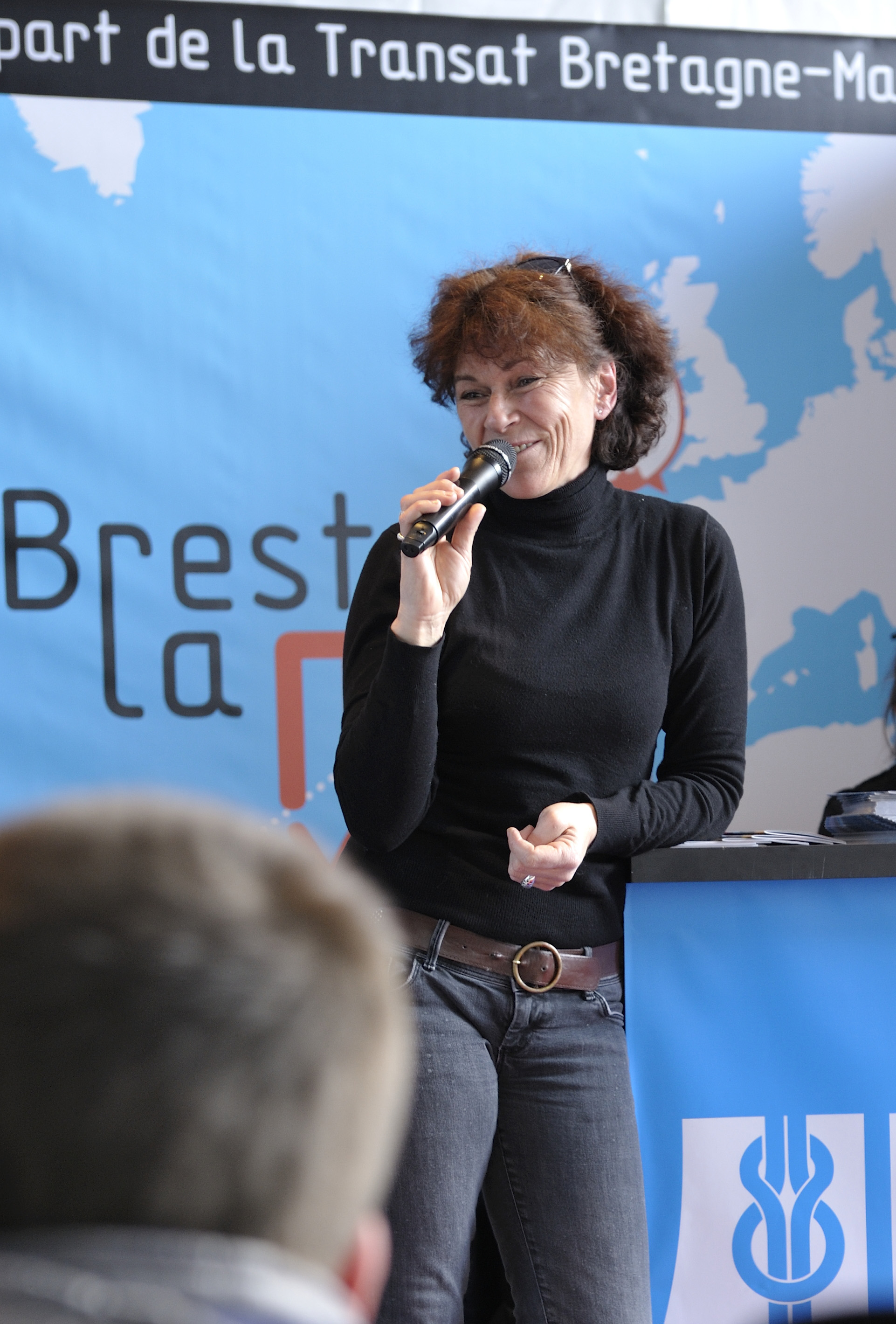 Les enfants de Brest rencontrent la navigatrice Anne Liardet